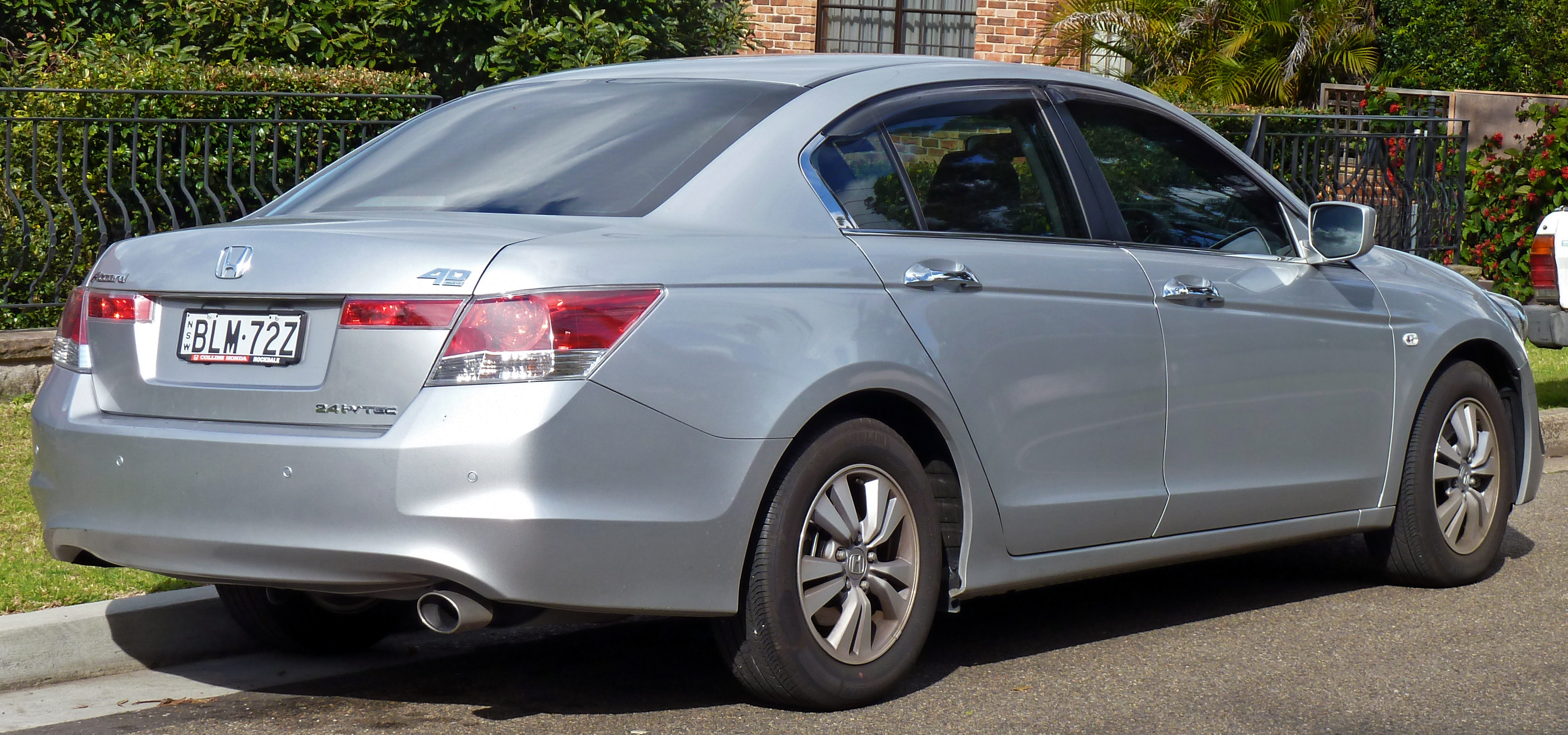 2009 Honda Accord 40th Anniversary sedan. Photographed in Blakehurst, New South Wales, Australia.